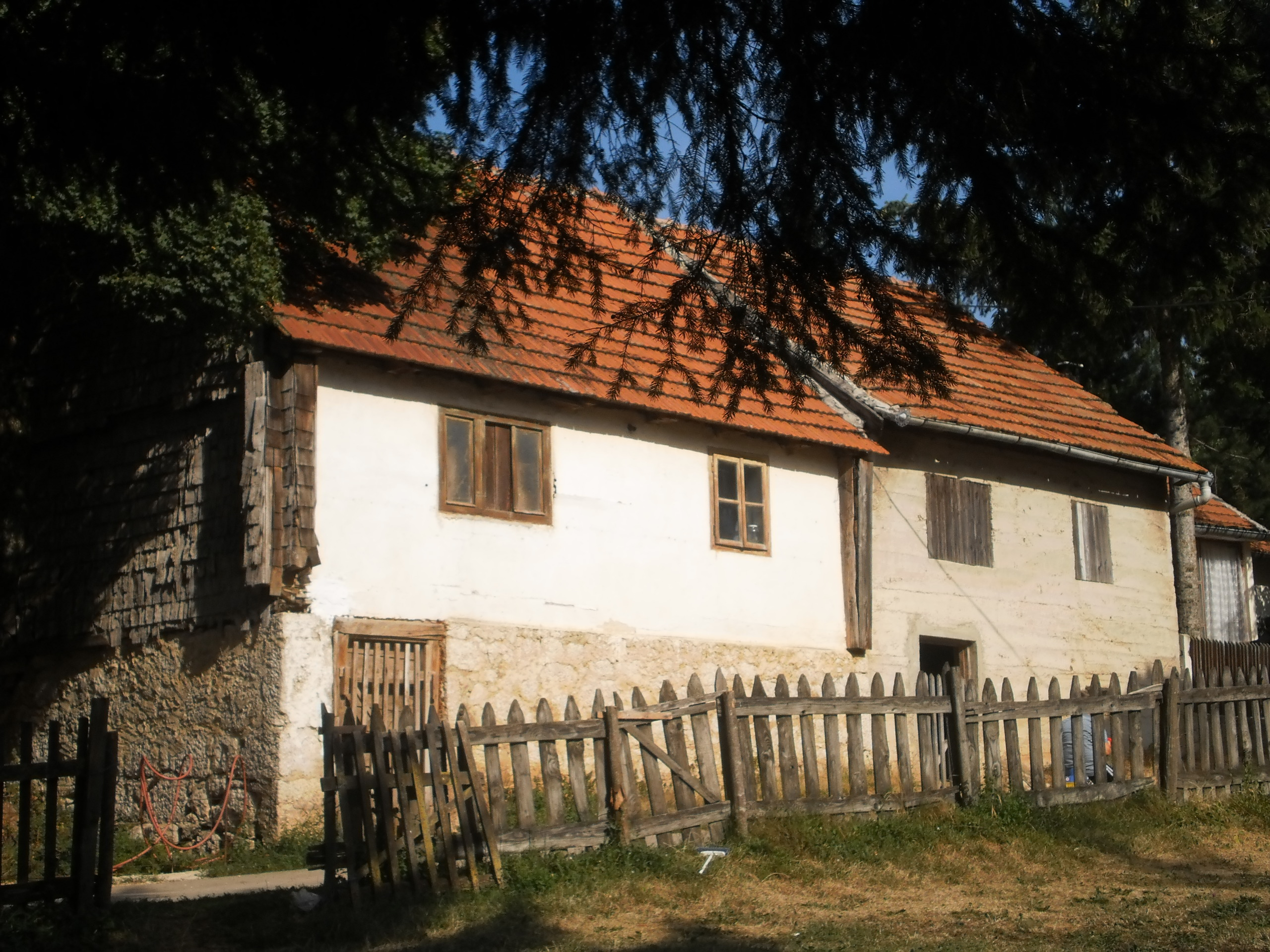 Old houses in Bogdašić village, Bosnia and Herzegovina